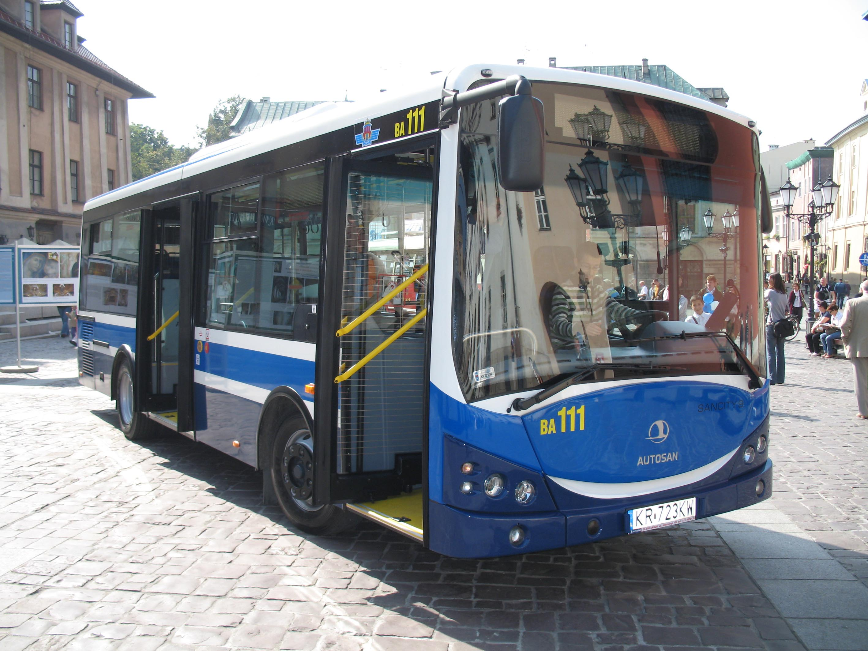 Autosan M09LE Sancity bus (#BA111) in Kraków, Poland. Year built 2009, MPK Kraków operator.